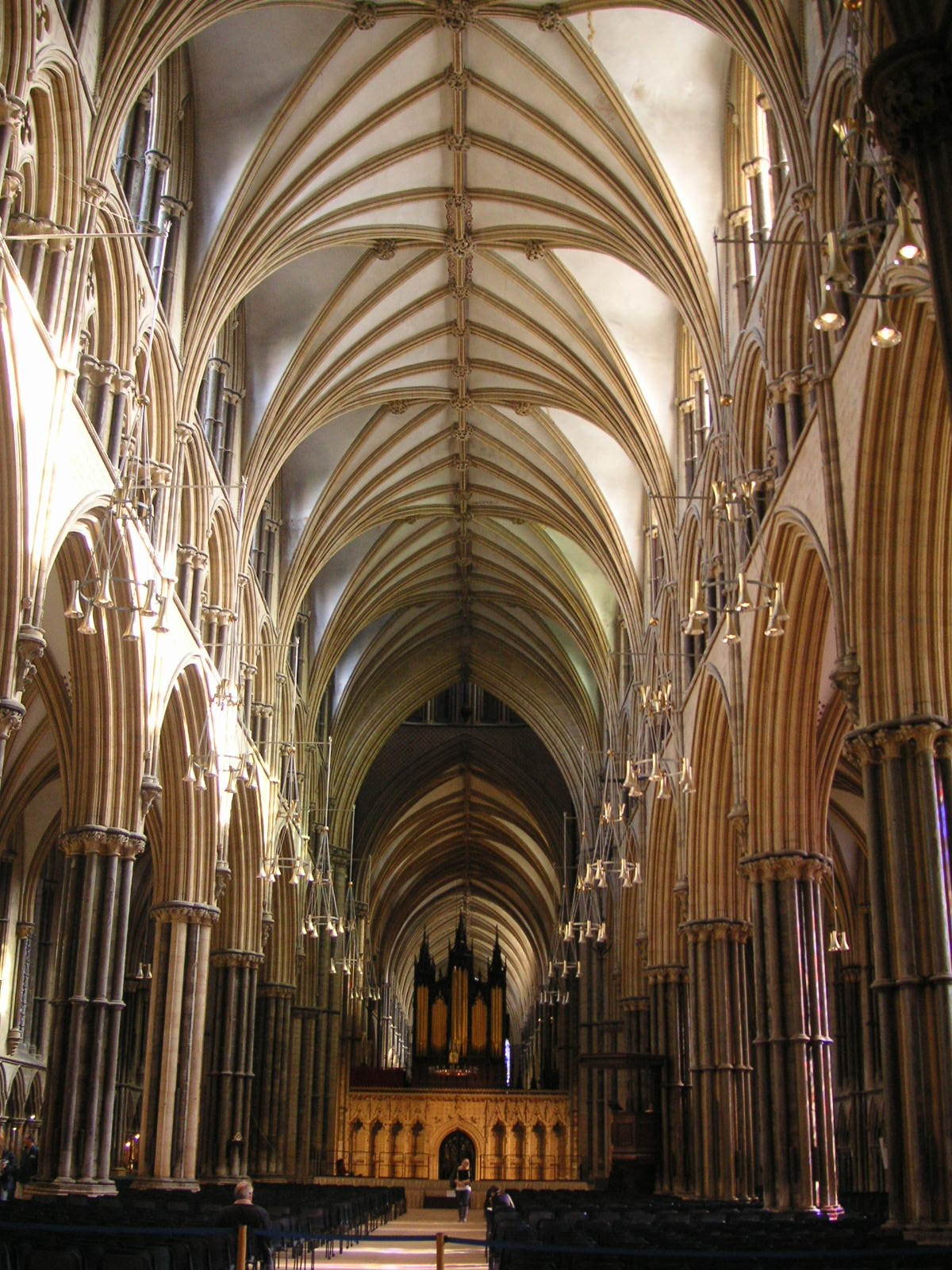 England, Lincoln Cathedral, the Nave, looking east.